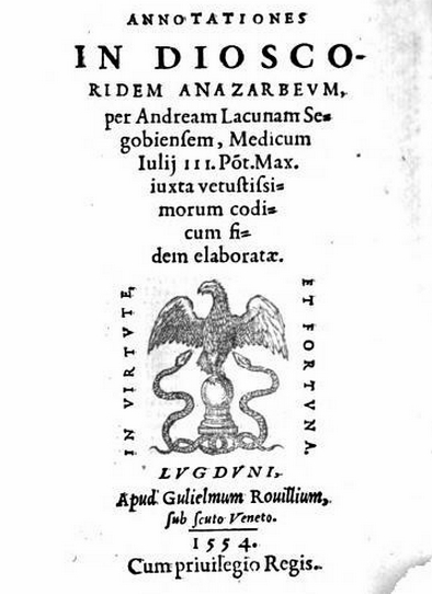 Andreas Lacuna, Annotationes in Dioscoridem, tp